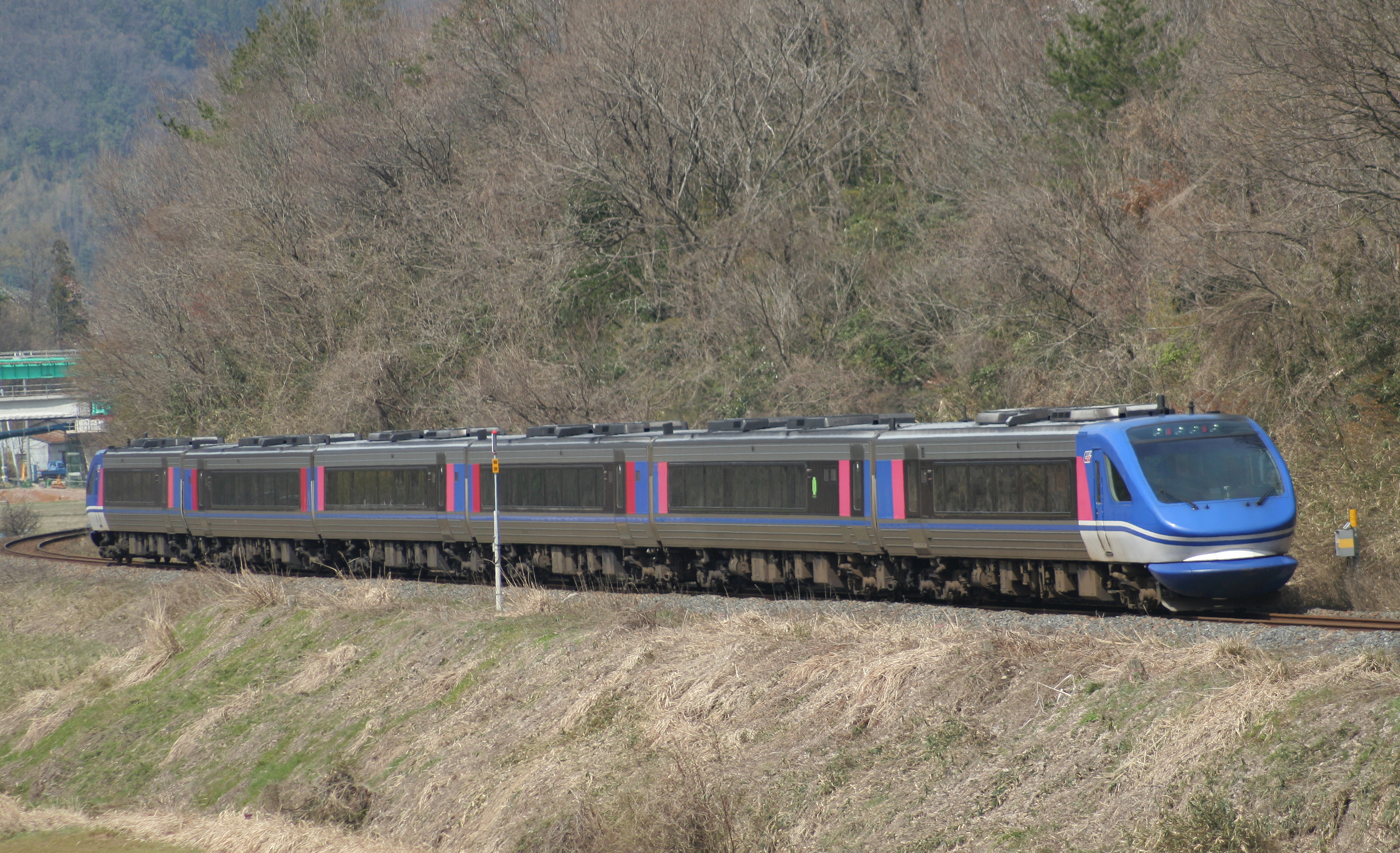 Chizu Express Company HOT7000 series Super hakuto